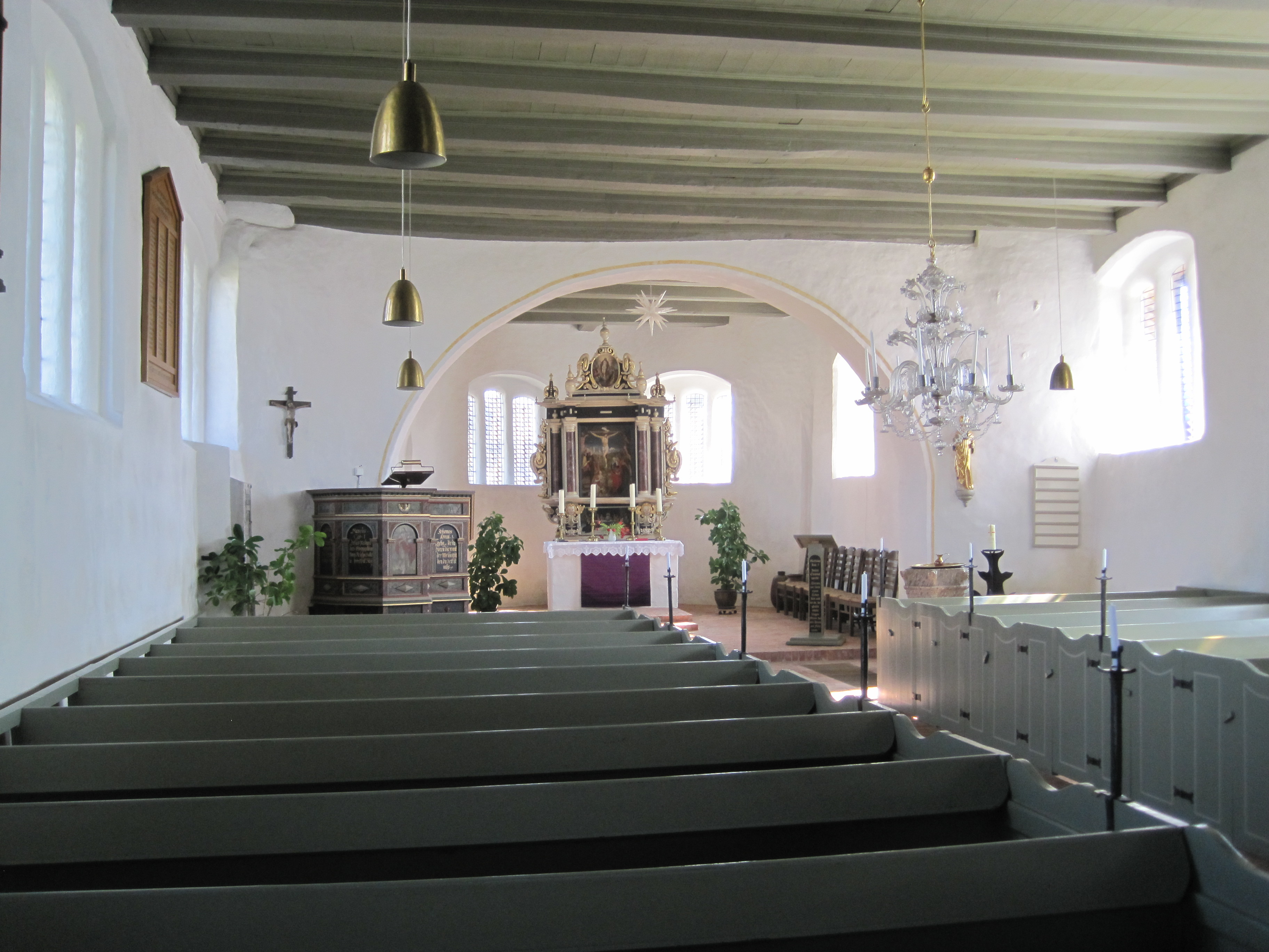 Interior of the church in Ziethen (Lauenburg)